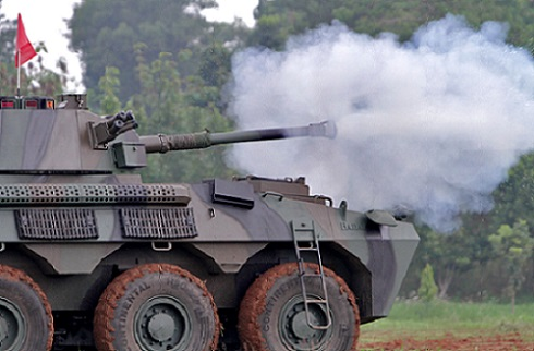 Pindad badak during evalution test